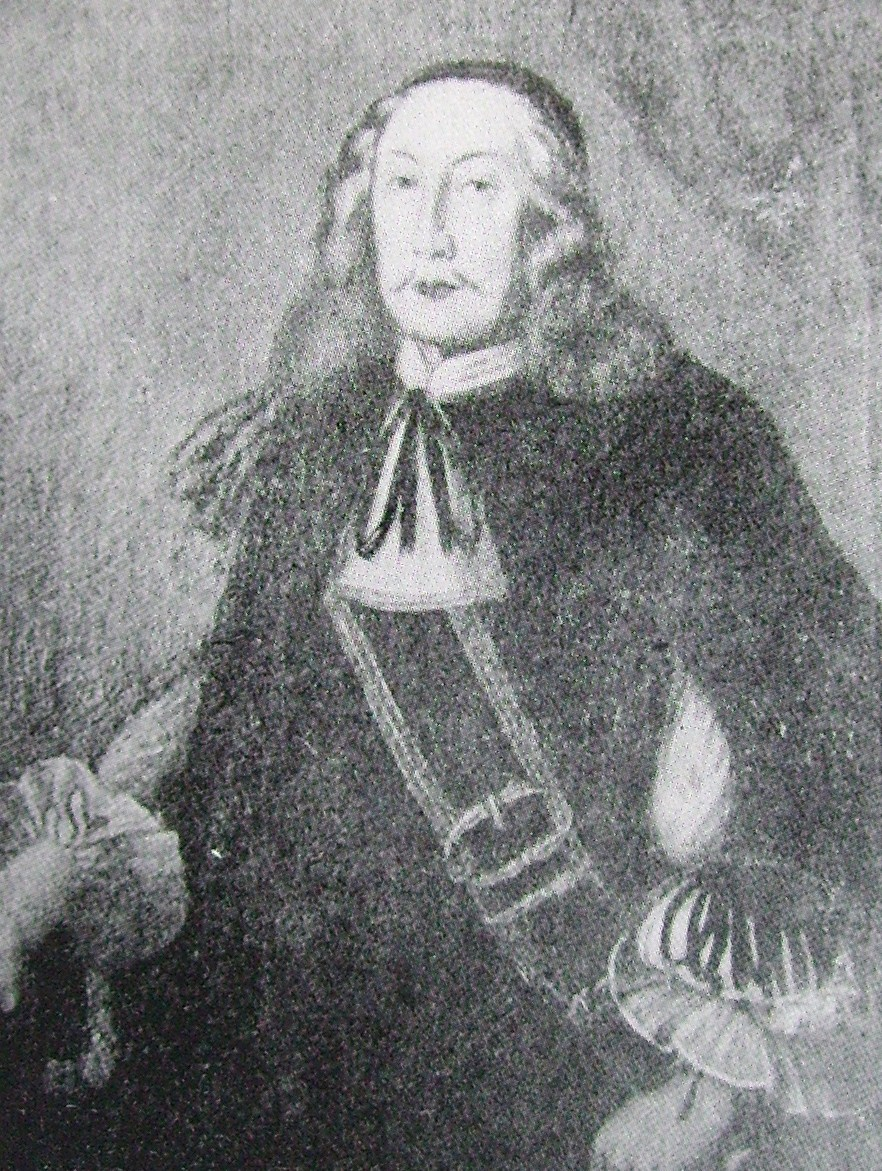 Picture of photograph of painting of Reinhold Rademacher, Swedish industrialist